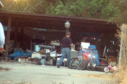 Looking into the backyard of the Garriito home. Photo courtesy of Radar/claycord.com